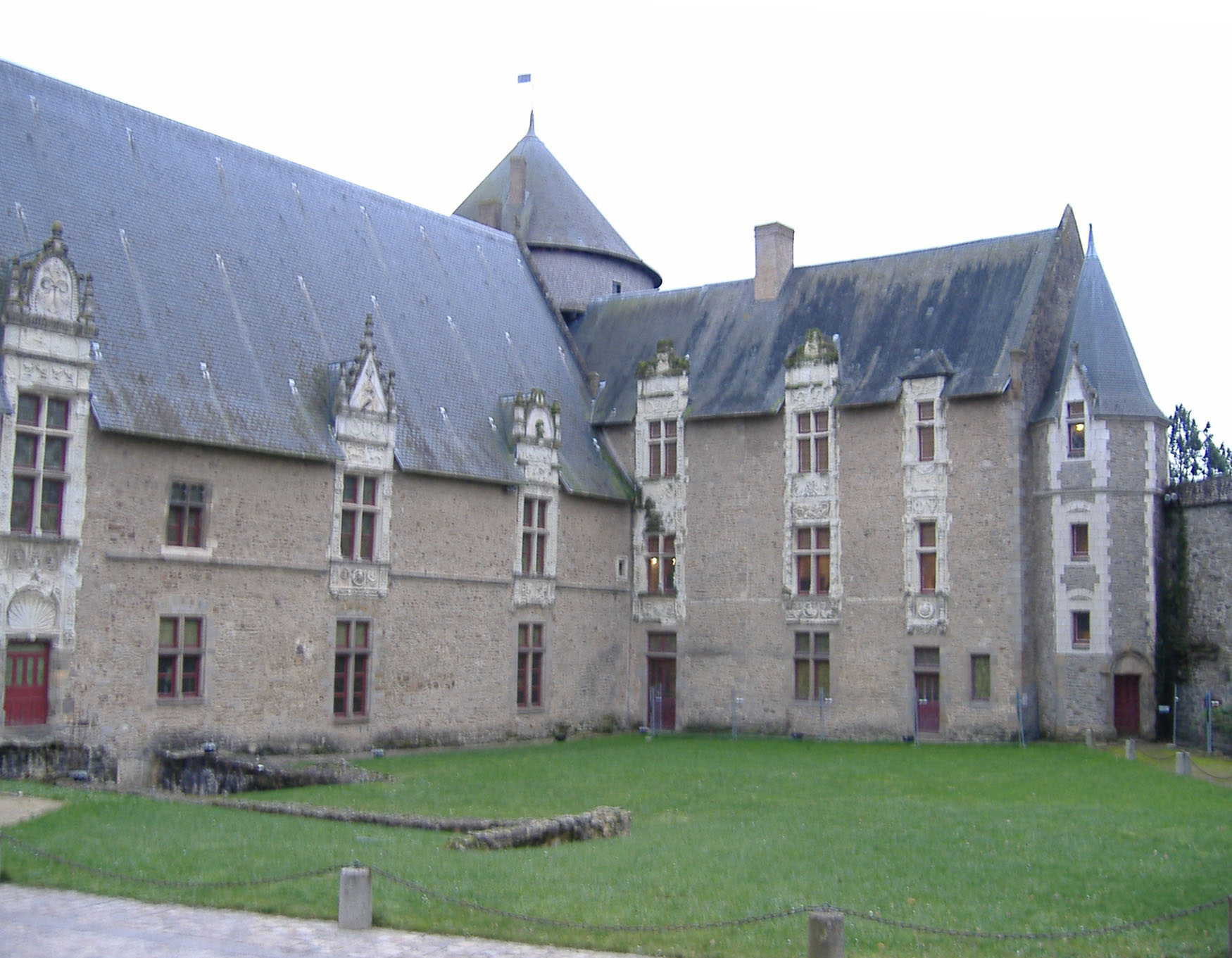 Laval Castle - France